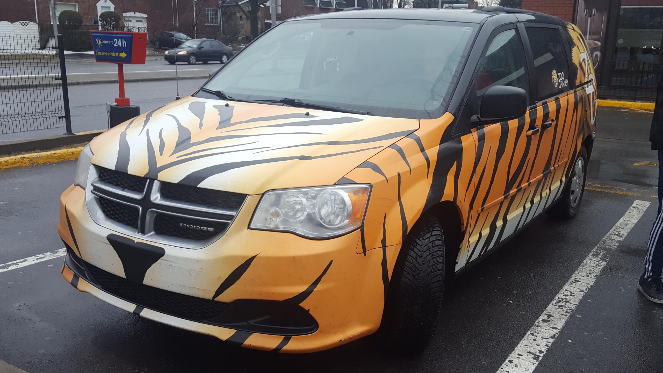 2011-2012 Dodge Grand Caravan photographed in Montreal, Quebec, Canada with a logo of the Granby Zoo.